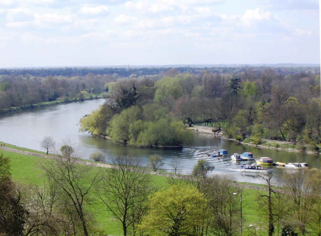 Glovers Isle from Richmond Hill, Richmond, Surrey